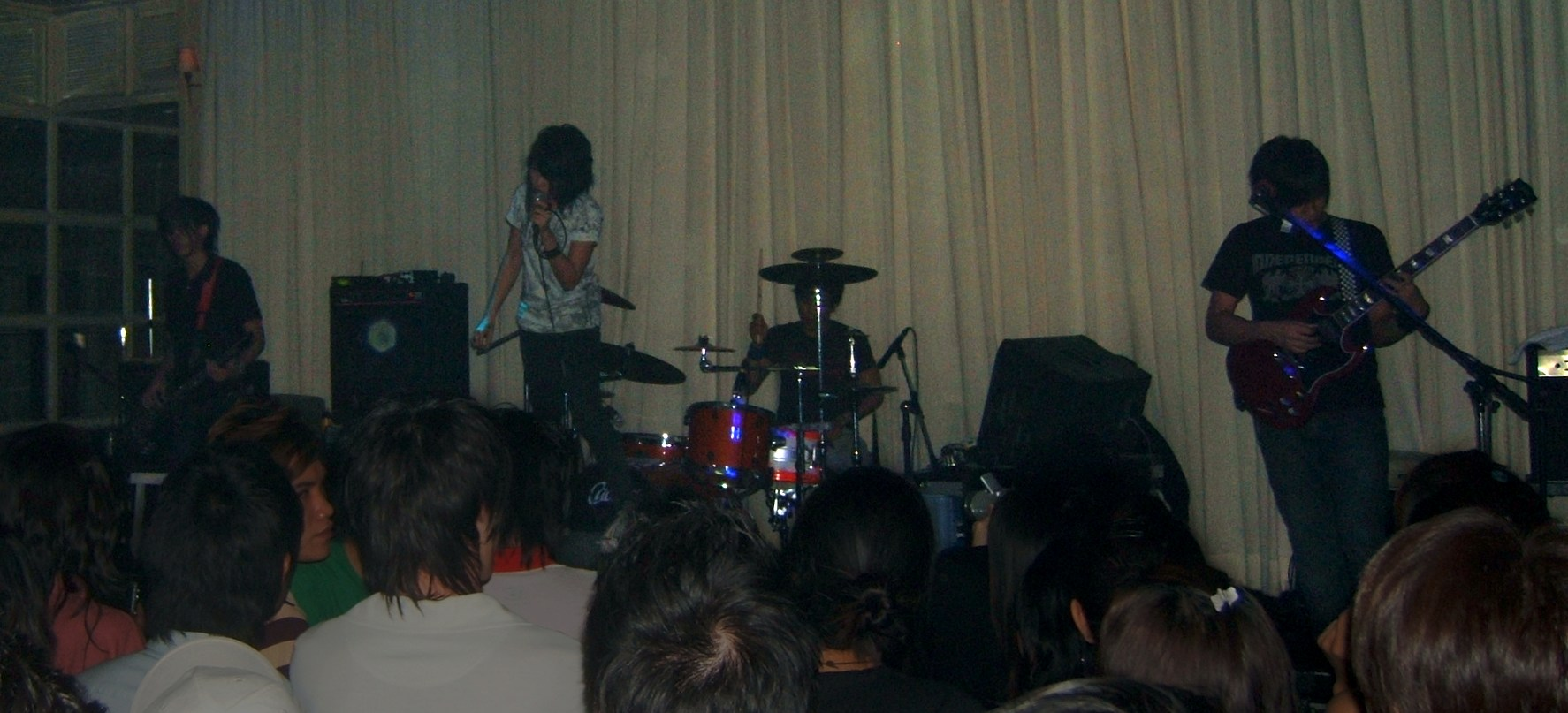 Thai band Endorphine performing at Route 66, Bangkok, Thailand